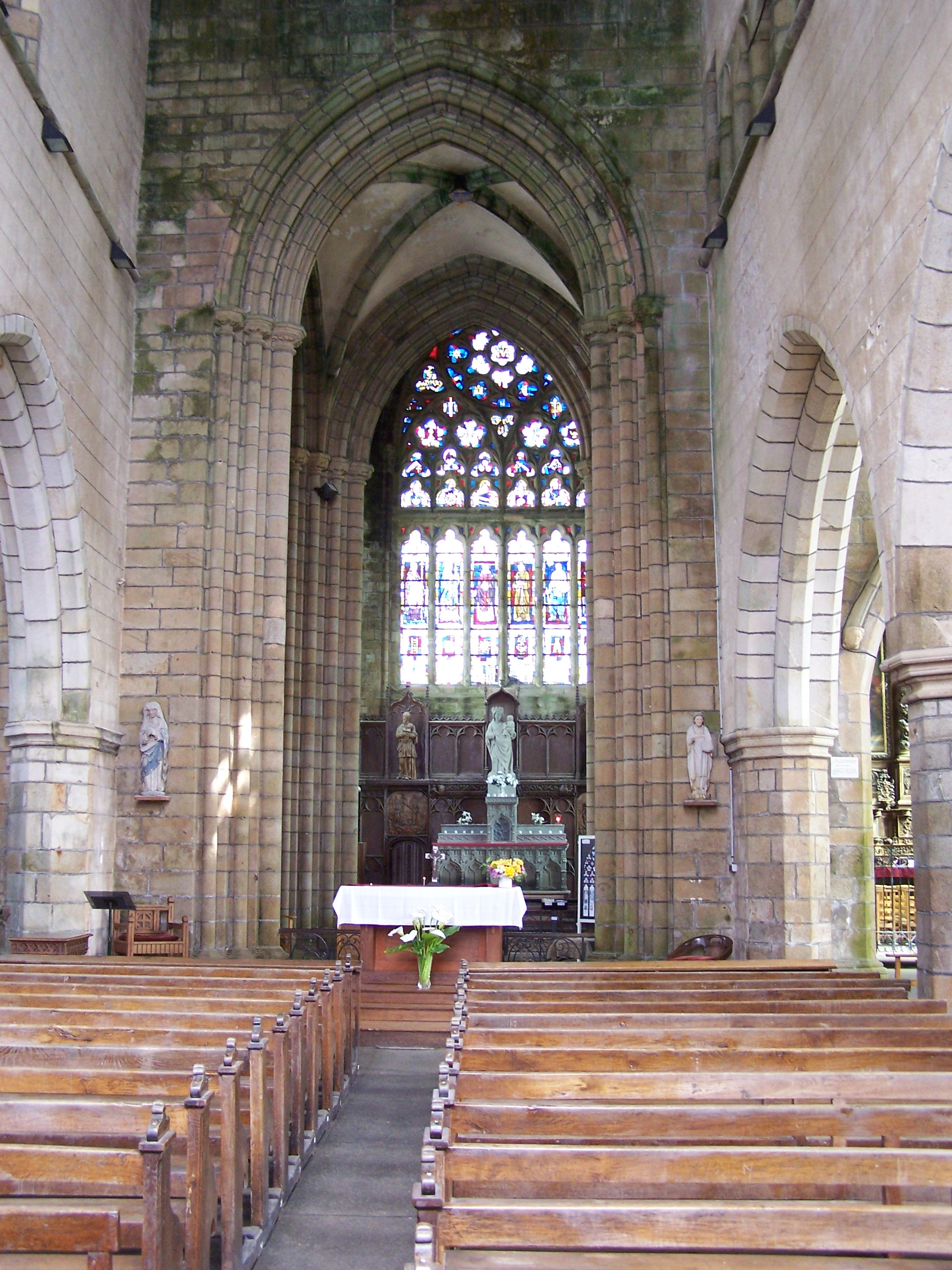 Nef centrale de la Chapelle Notre-Dame du Kreisker